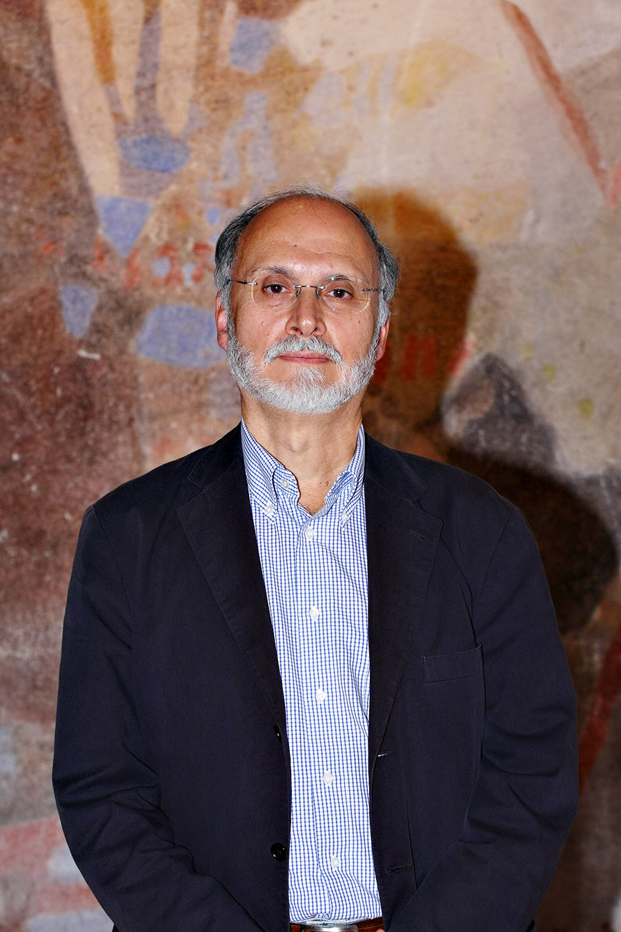 prof. Gilbert Achcar in ABF-husetr in Stockholm, Sweden. Sept 3 2014.